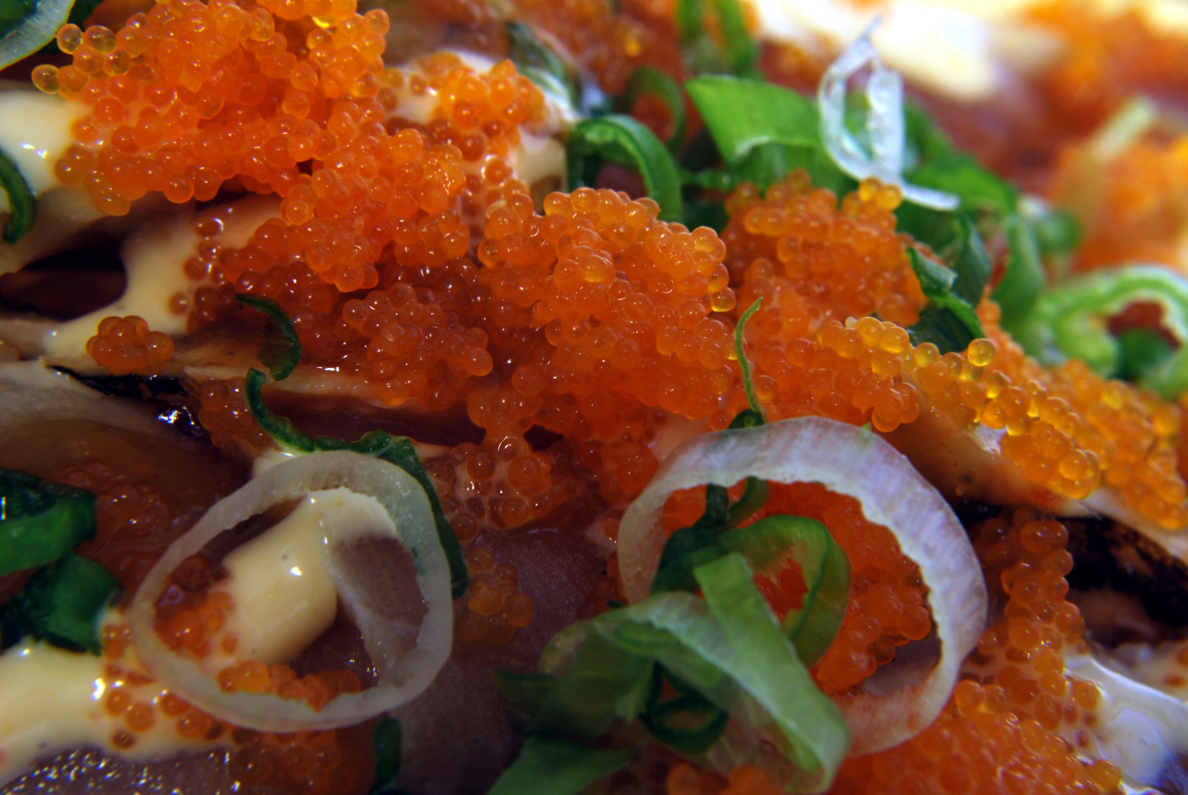 Tobiko is the roe (eggs) of the flying fish. This roe is a delicious topping for the grilled albacore. This image was shot using special macro filter-attachments on my regular 18-55mm lenses.